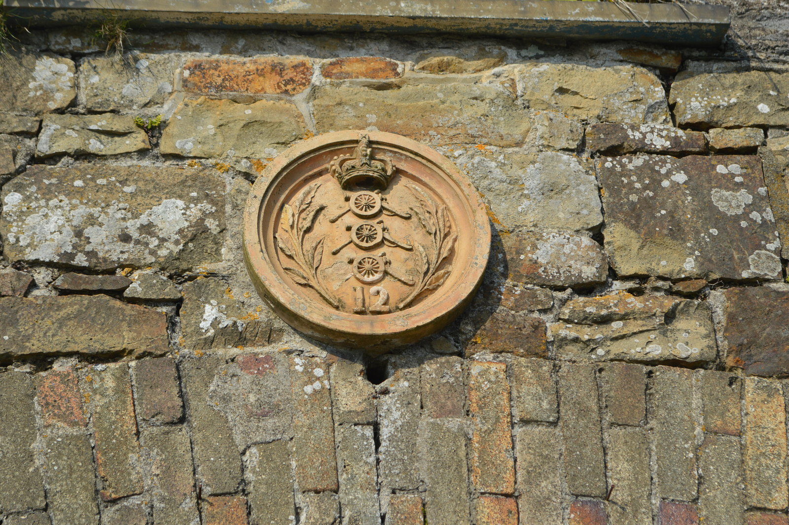 Artillery motif on the former drill hall of the 12th (Marazion) Cornwall Artillery Volunteers